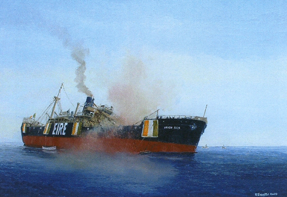 This is a low resolution image of an oil painting. Irish Shipping commissioned the work from the marine artist Kenneth King [1]. After the demise of Irish Shipping, the Maritime Institute of Ireland bought the painting at auction. The painting is in the National Maritime Museum of Ireland. Des Brannigan, while president of the MII had this painting scanned for a commemorative brochure. This image is from that scan rather than directly from the painting.